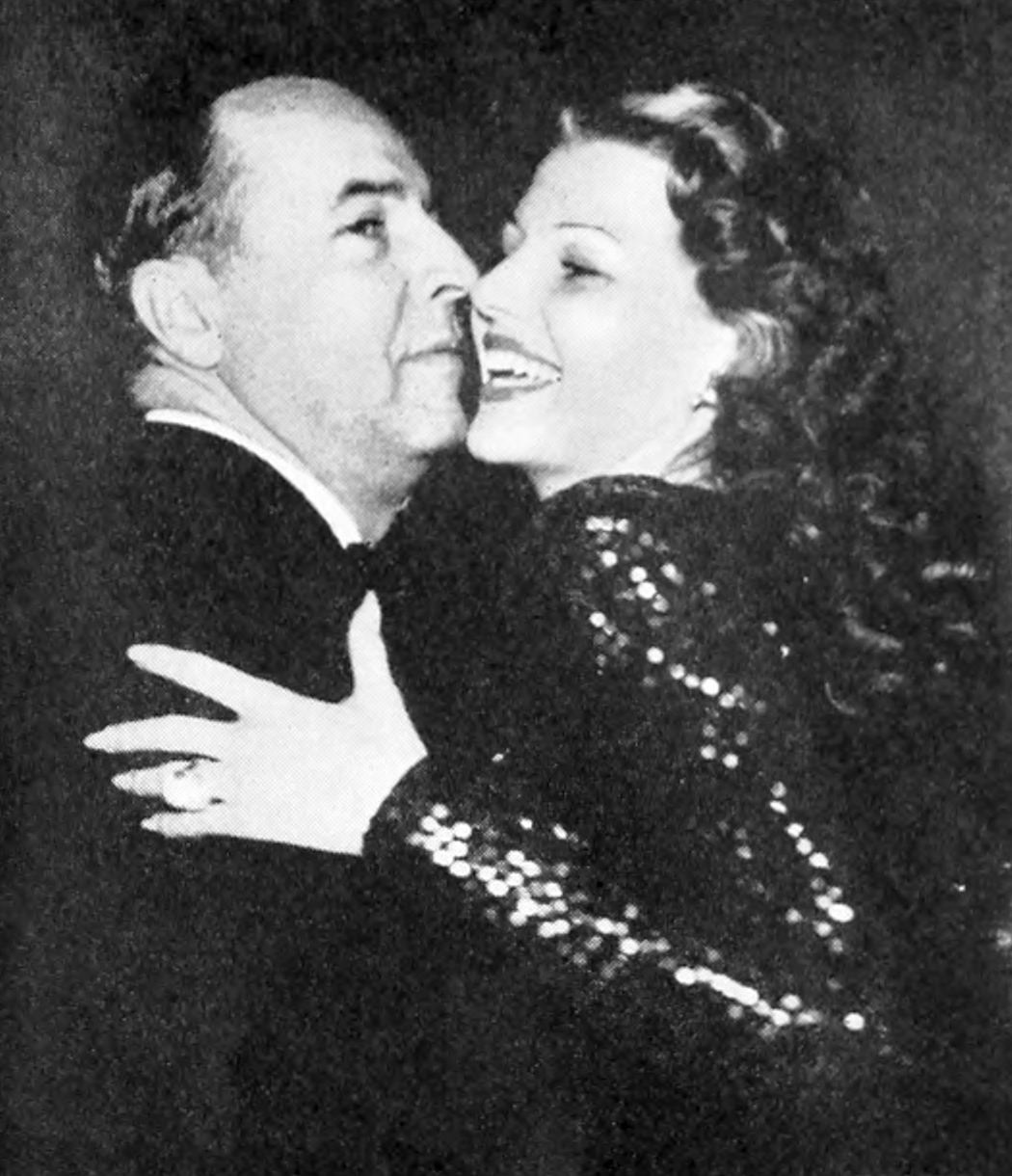 Photograph of Rita Hayworth with first husband Edward Judson